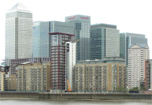 Canary Wharf seen from across the Thames - personal photograph